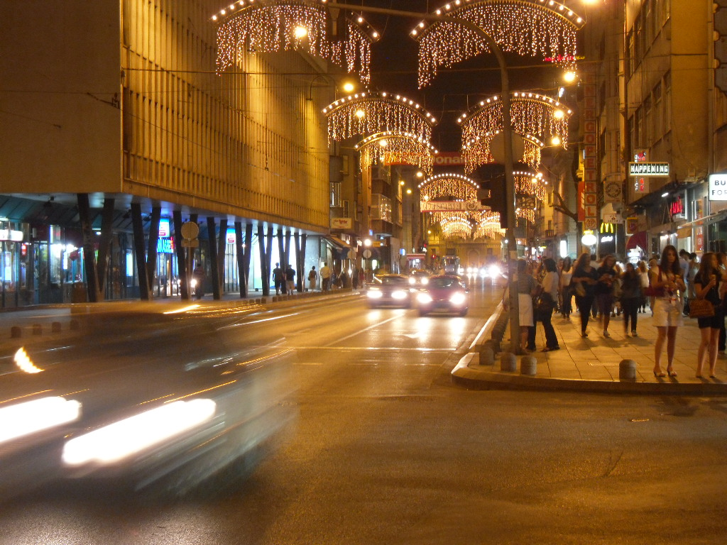 Sarajevo by night 2011